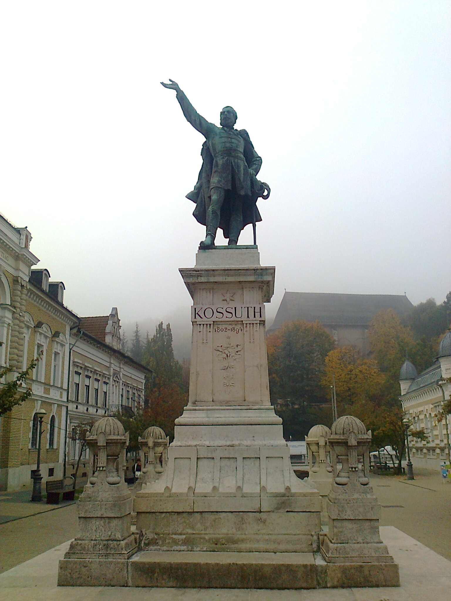 Kossuth Lajos' sculpture in Miskolc (1898)